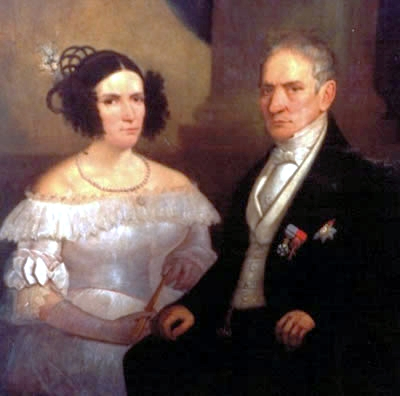 Manuel Francisco e Francisca Elisa Xavier, future baroness of Soledade, providers of the Our Lady of Conception Church in Paty do Alferes. Owners of the Freguesia coffee farm where happened the Manuel Congo slave revolt.